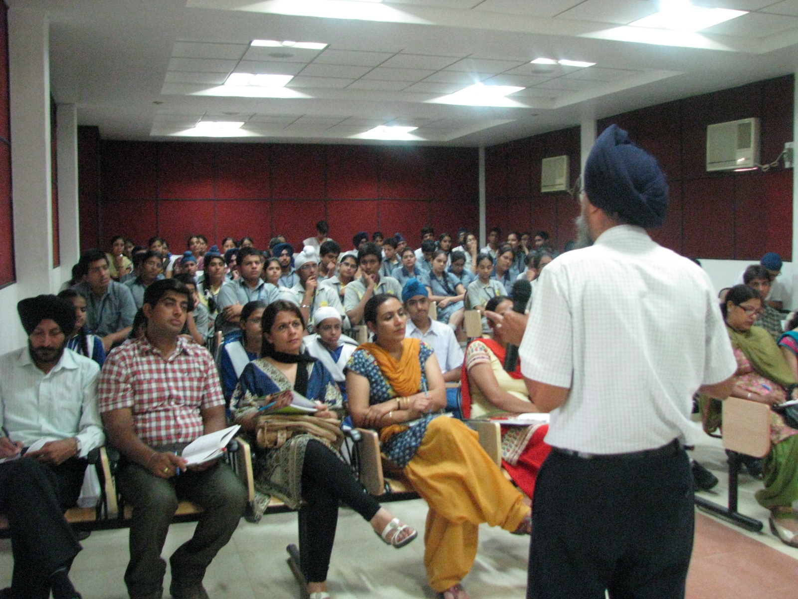 Participants of Punjabi Wikipedia Workshop at Amritsar on 17 Aug 2012.